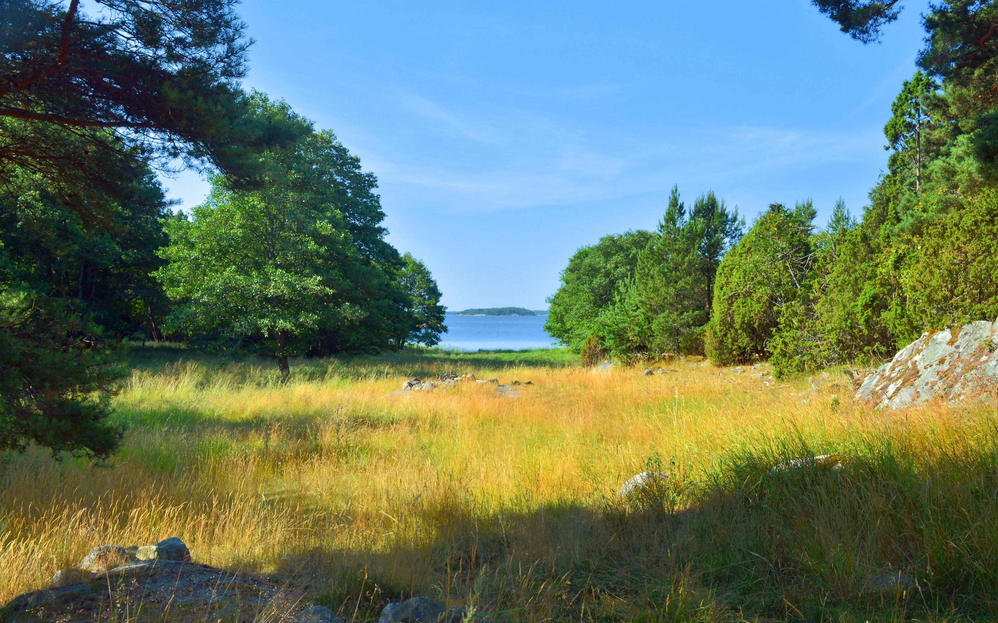 The pasture at Boskapsön (Cattle island) in Stockholm archipelago, Sweden.